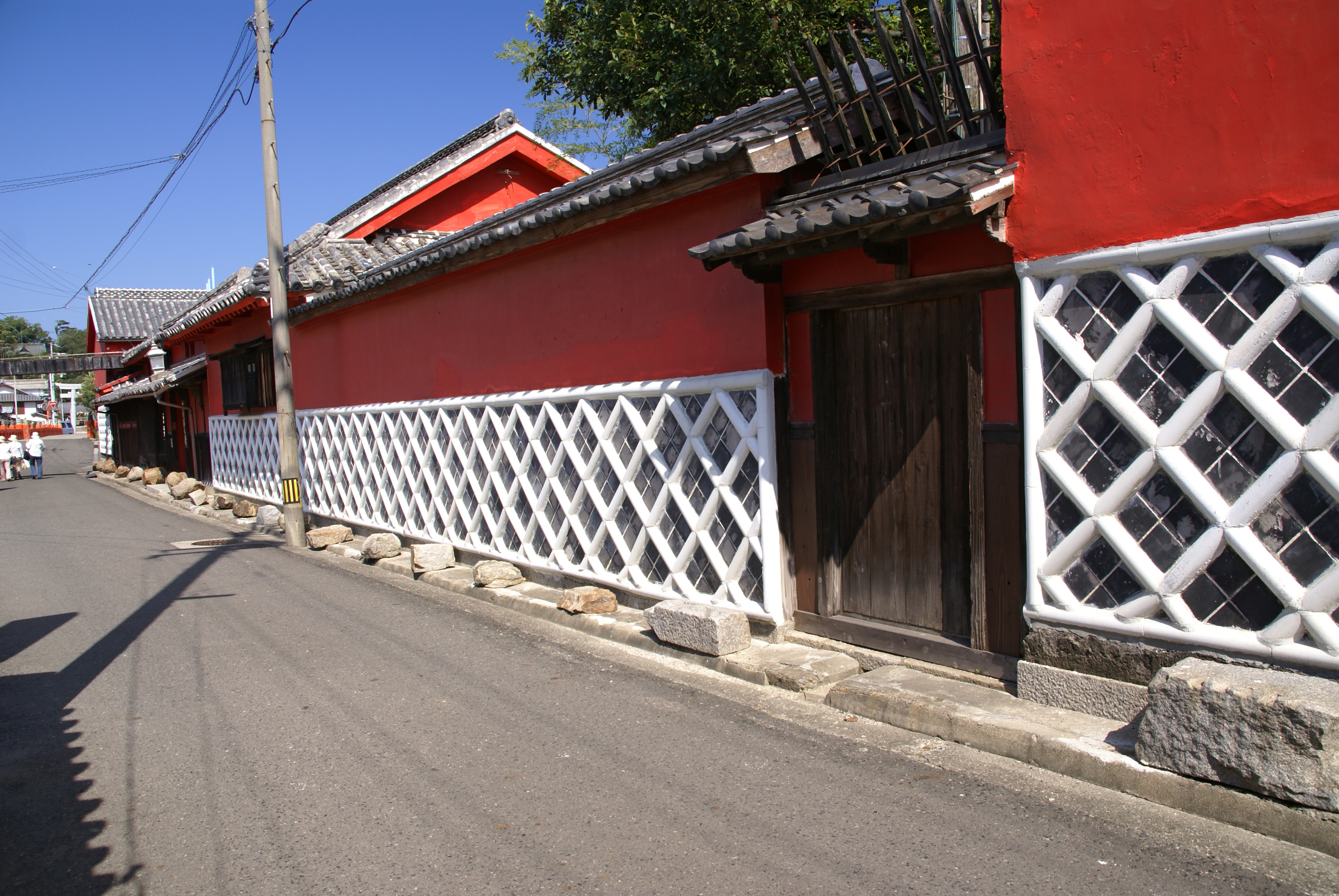 Kamebishi-ya in Hiketa, Higashikagawa, Kagawa prefecture, Japan